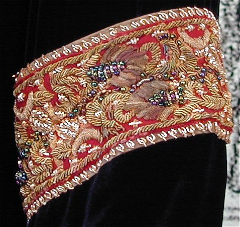 Detail of sleeve embroidery from Arwen's "mourning dress". Window display of costumes and props from The Lord of the Rings film trilogy at Neiman Marcus, Beverly Hills.